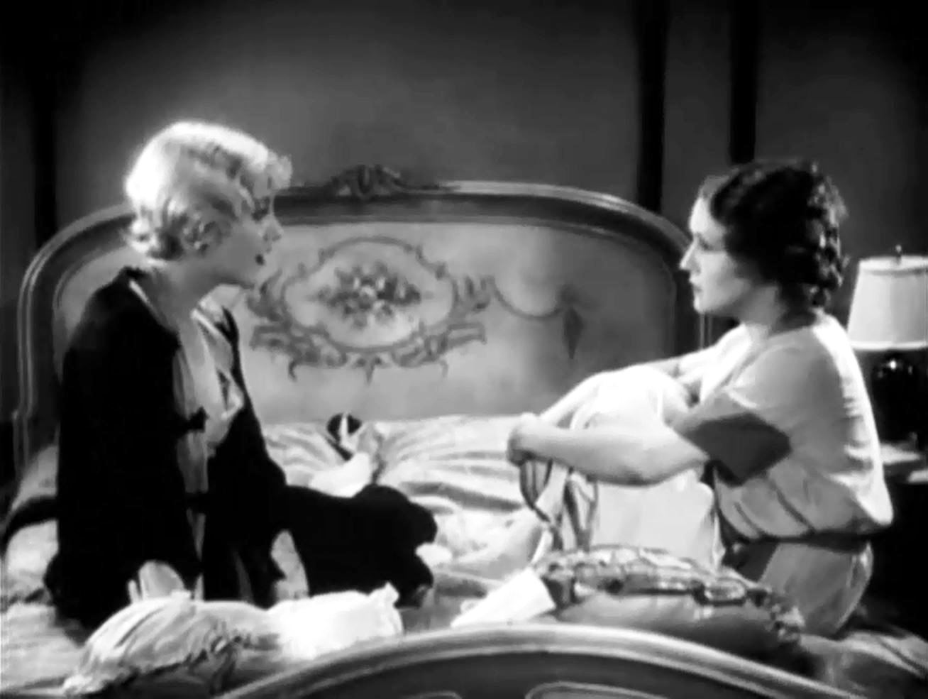 Low resolution screenshot of Nell O'Day as Eve Monroe and Helen Foster as Ann Dixon from the American public domain exploitation film The Road to Ruin (1934). In this scene the two are discussing kissing.